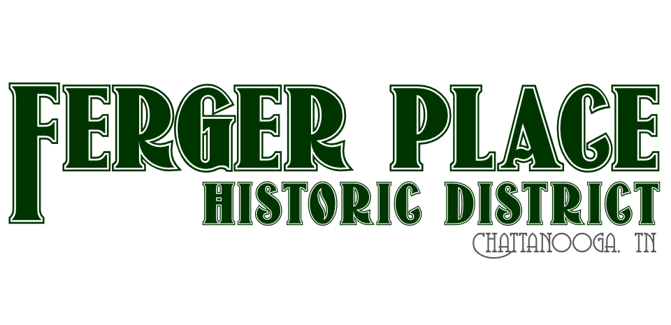 A variation of the ferger place logo that I created for the Neighborhood.